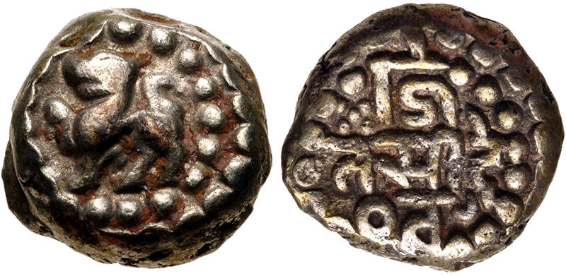 Coin of the Pallavas of Coromandel. Narasimhavarman I. Circa AD 630-668. AR Unit (12mm, 4.38 g, 5h). Lion left REV: Name of Narasimhavarman with solar and lunar symbols around.